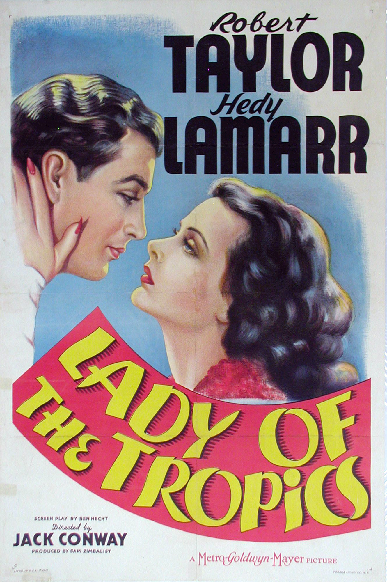 Poster for the 1939 film Lady of the Tropics. There are no copyright marks. At bottom left is "C"-for poster version "C" Litho in USA #(looks like) 3678. At bottom right is Tooker Litho Co. NY-they printed the poster.